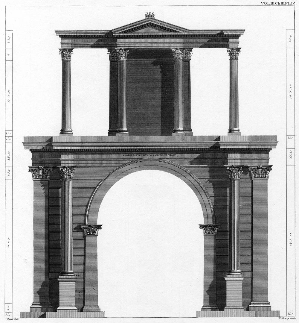 Restoration Drawing of the SE side of the Arch (Stuart and Revett, The Antiquities of Athens, Vol. III, Ch. III pl. IV)